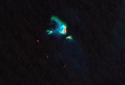 Cayos Arcas, southwestern Campeche Bank off Yucatán, Mexico, Landsat 7 Path 022, Row 046